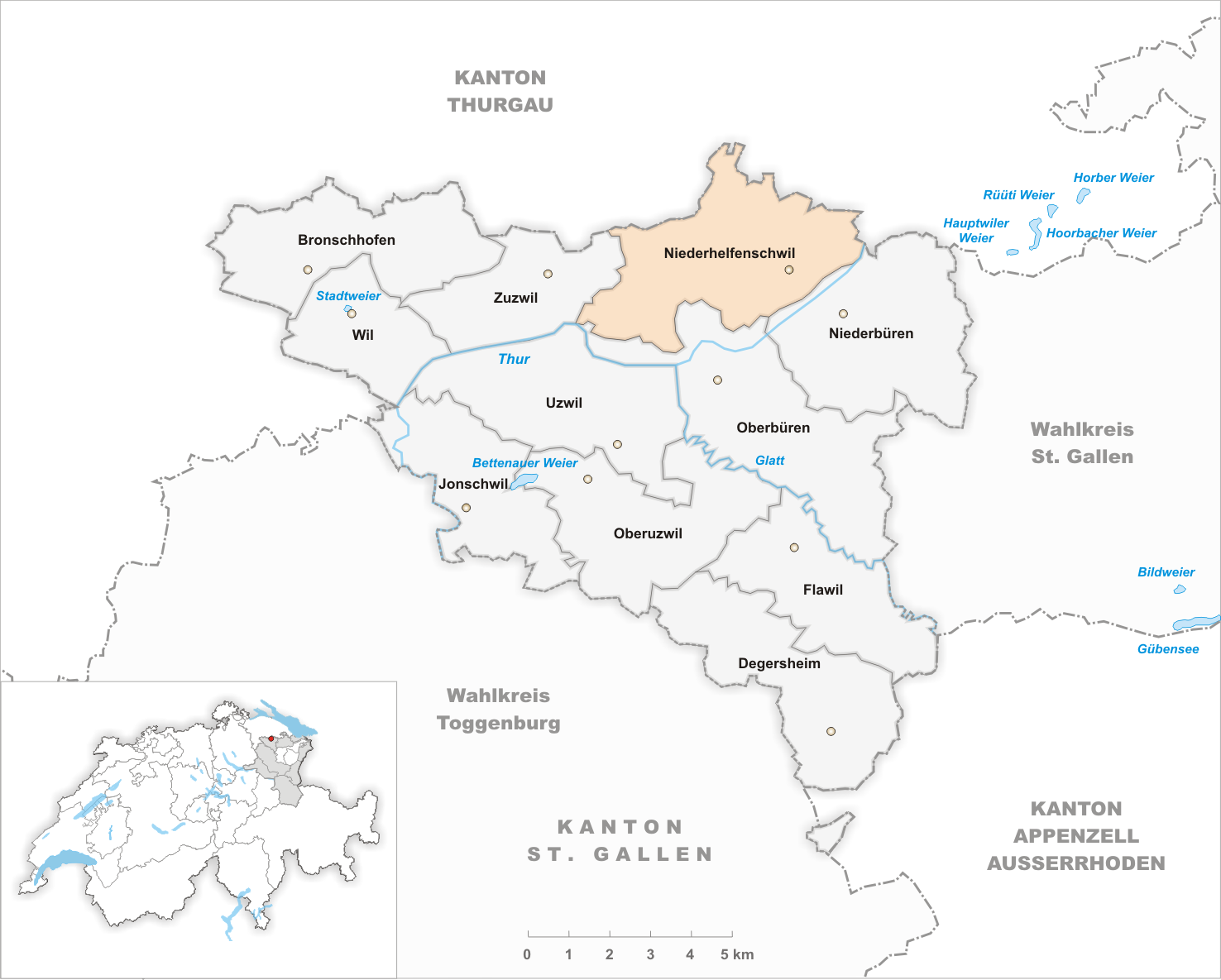 Municipality Niederhelfenschwil